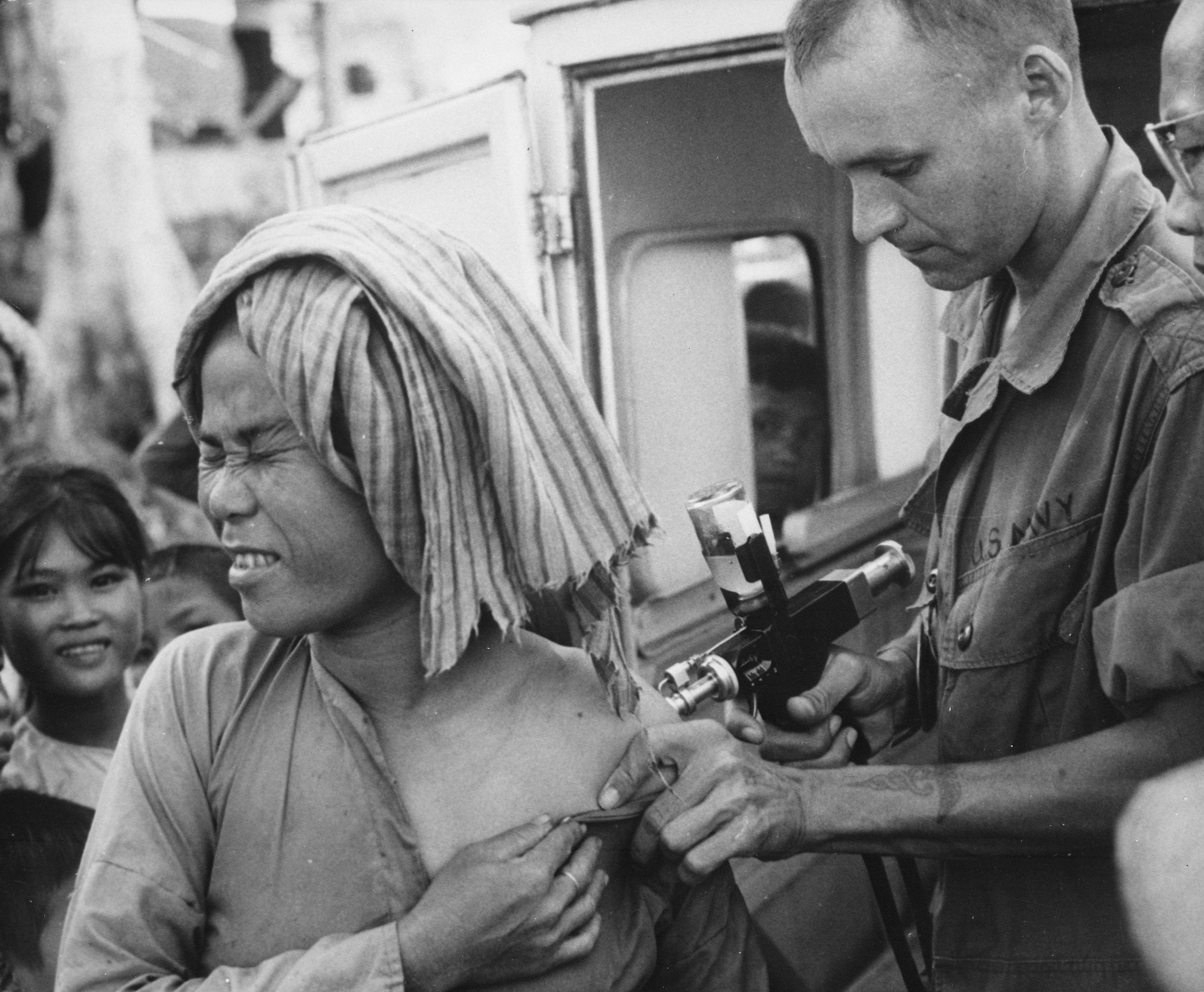 General notes: Use War and Conflict Number 412 when ordering a reproduction or requesting information about this image.